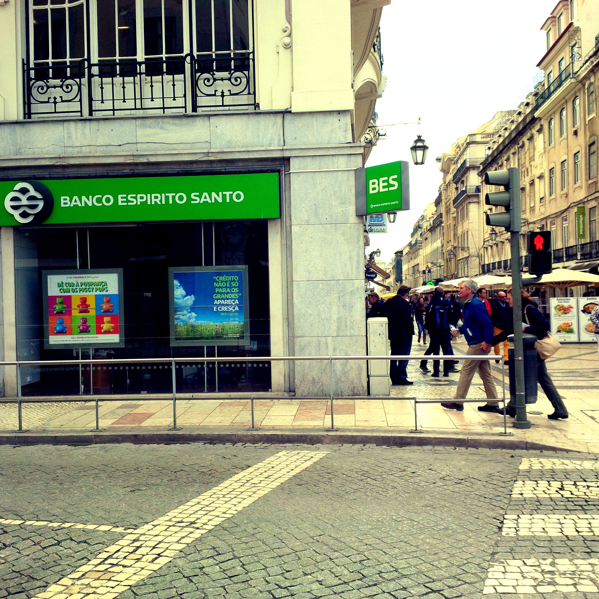 Banco Espírito Santo branch in Rua Augusta, Lisbon (2014).